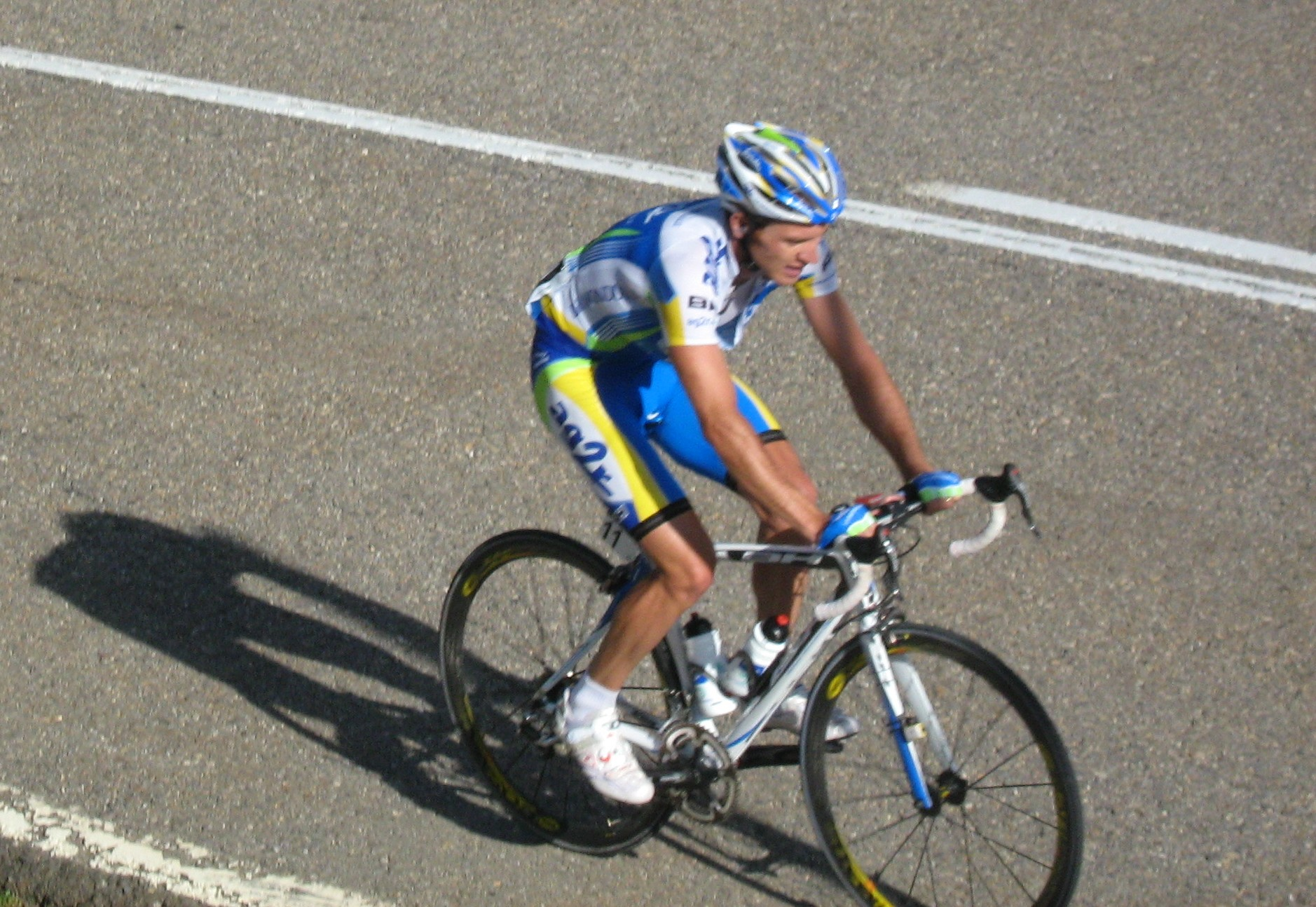 Rinaldo Nocentini, 2008 Vuelta a España, 8th stage, Port de la Bonaigua, Spain.